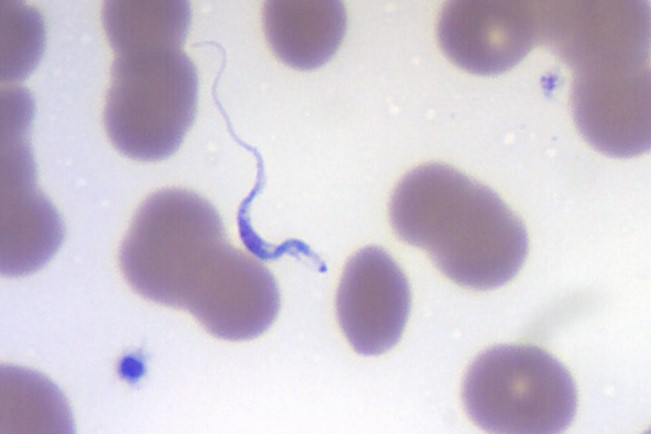 Photo by Margaret Uthman, MD. Pathological and histological images courtesy of Ed Uthman at flickr.